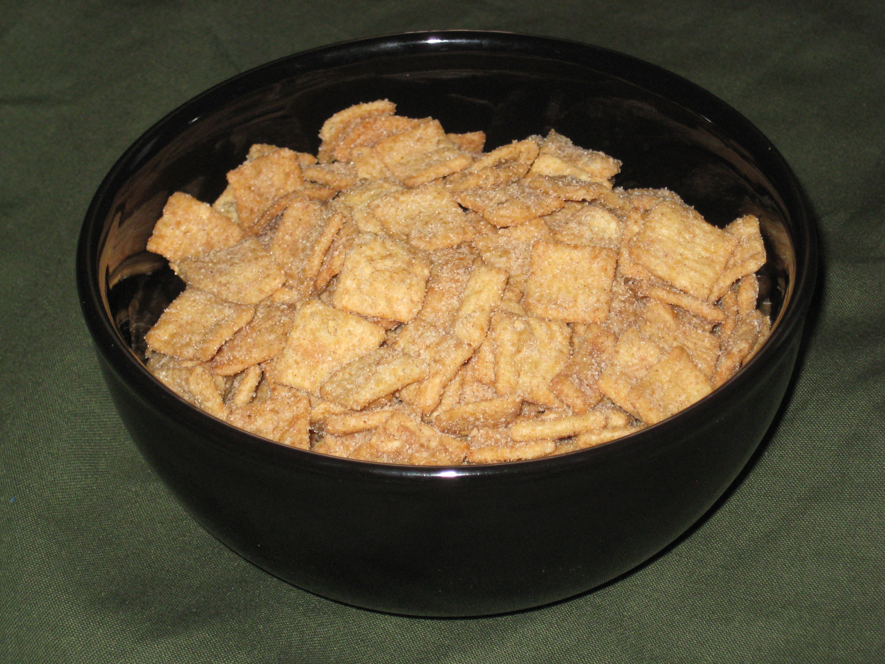 A Bowl Of Cinnamon Toast Crunch